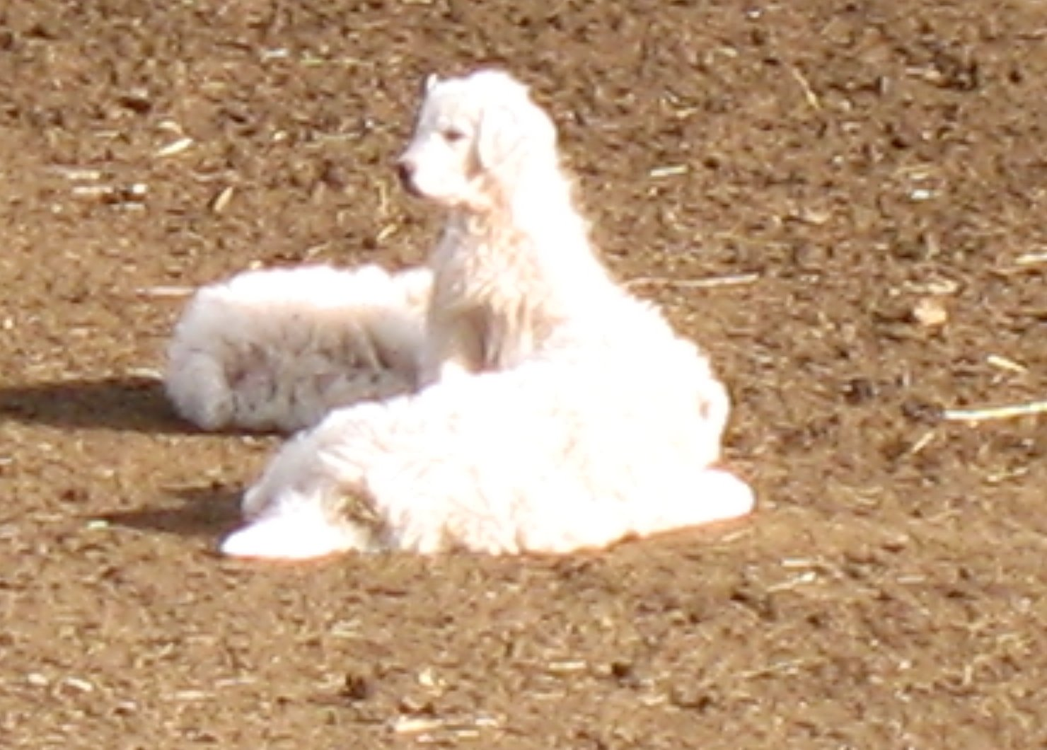 Abruzze Sheep Dogs at Castel del Monte by Brooke Nichols, Jan. 2007, Creative Commons.